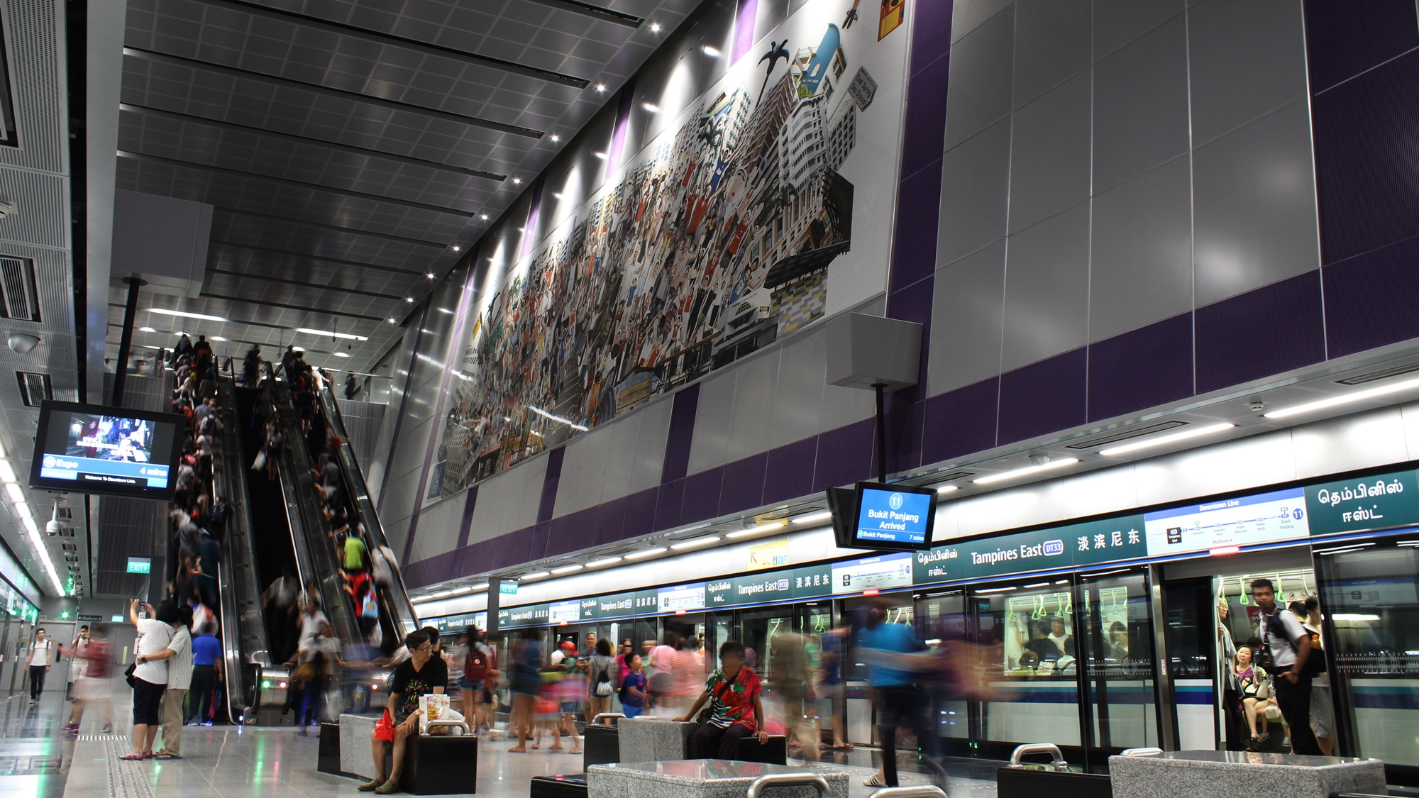 DT33 Tampines East station